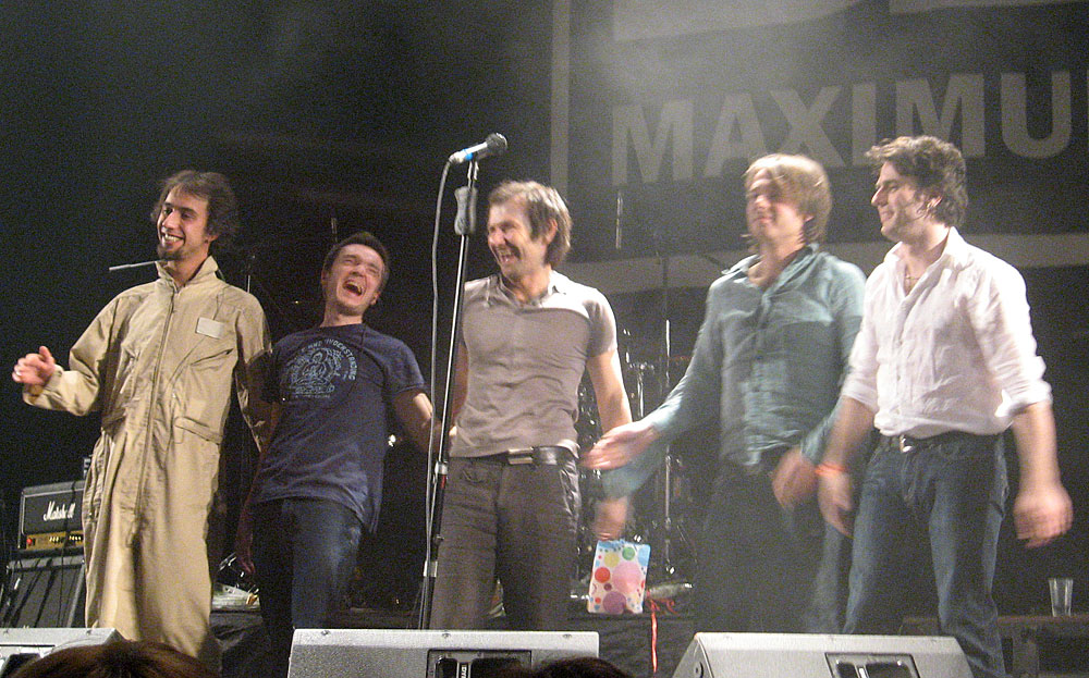 Okean Elzy at B1 Maximum Club in Moscow, Russia.